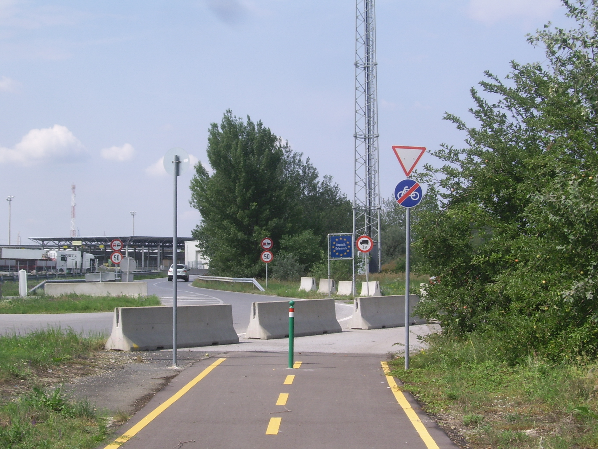 End of Hungaryan bicycle trail 1A (Upper Danube Cycleway) in Hegyeshalom.